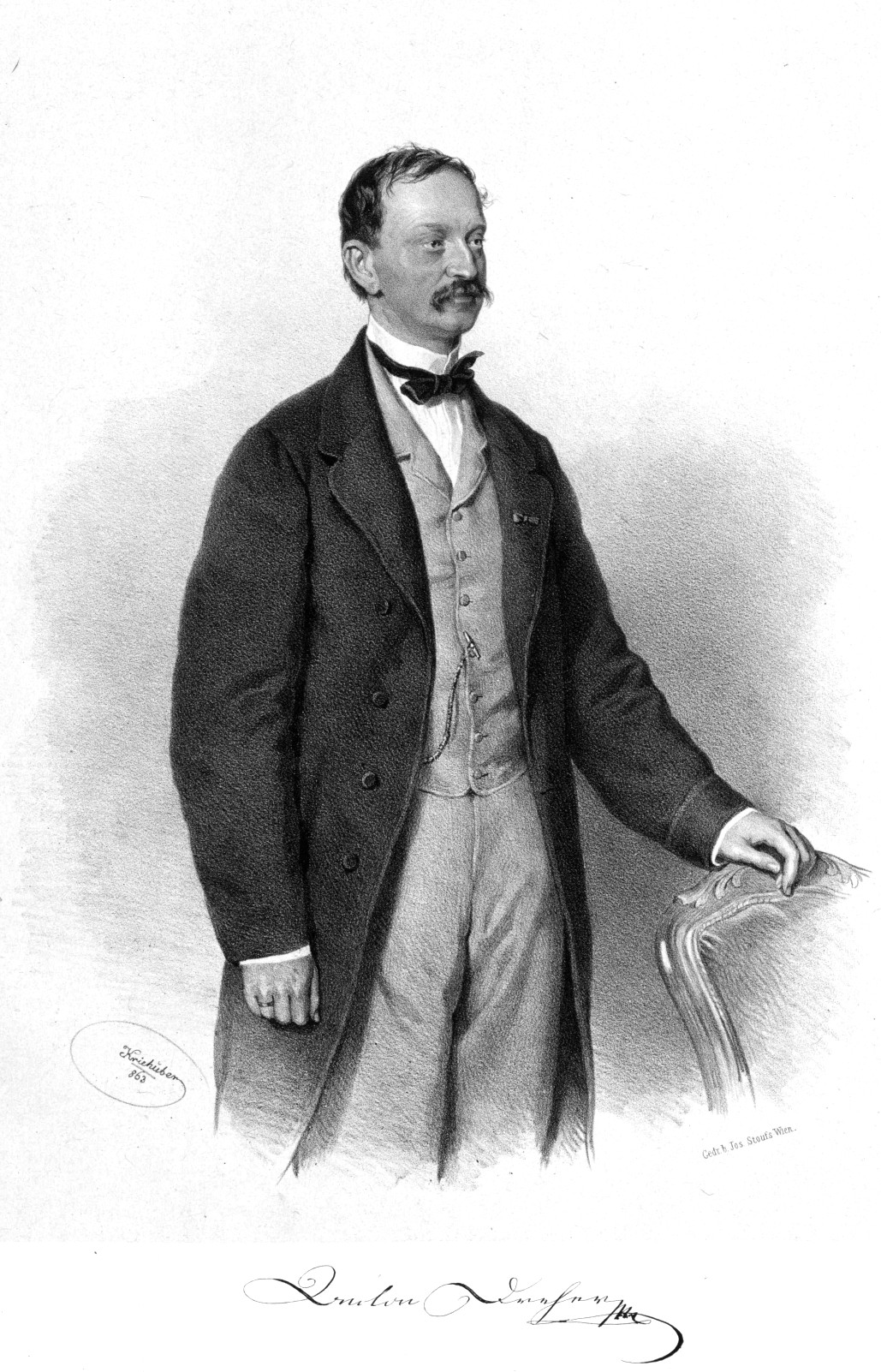 Antal, Dréhher